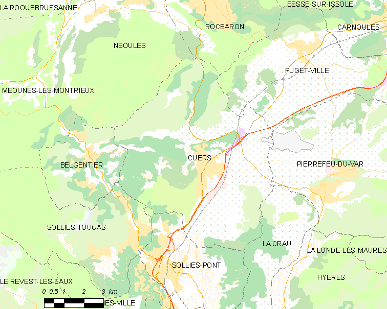 Map of French municipality Cuers